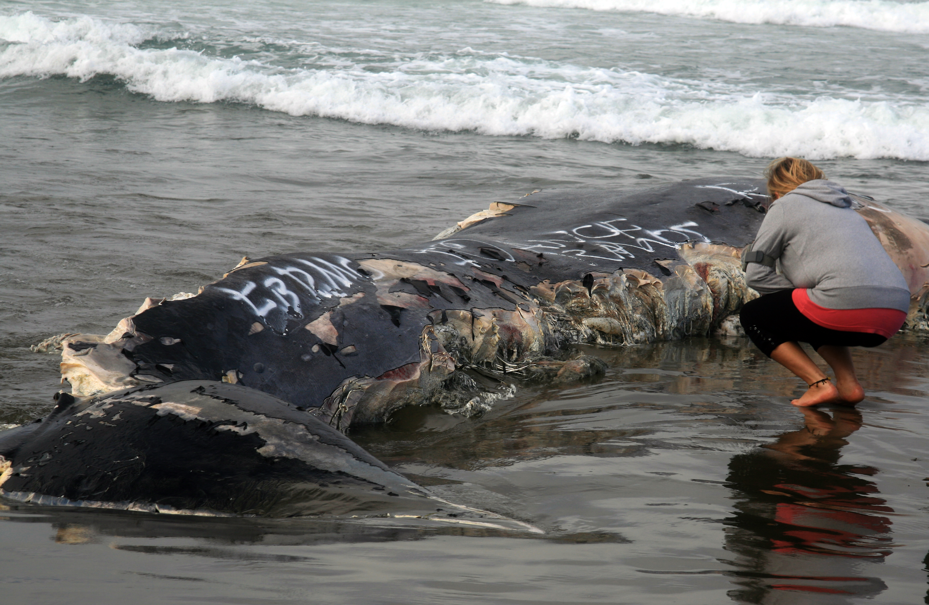 A beachcomber is looking at the marks of great white shark bites on a beached whale.